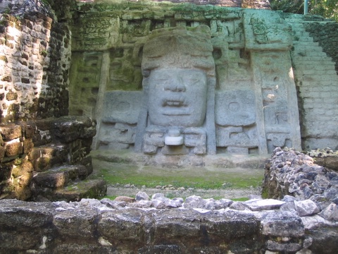 Detail of carving on right-hand (facing temple) wall of Mask Temple. There is another on the left hand side that is covered by a rock wall, covered up due to its too-delicate nature. Lamanai, Belize.